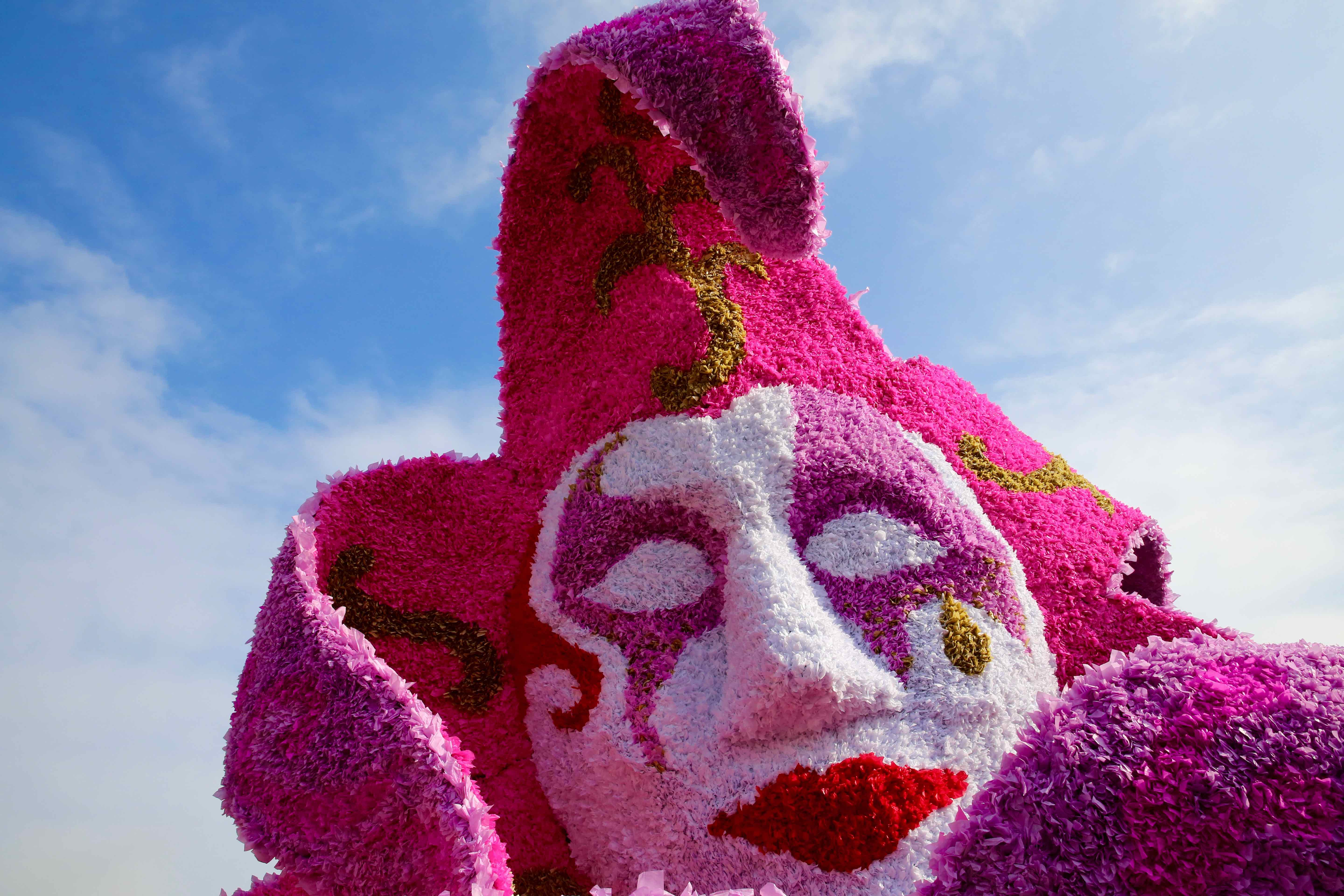 Back side of the carnival wagon of the prince of Maaseik in 2016